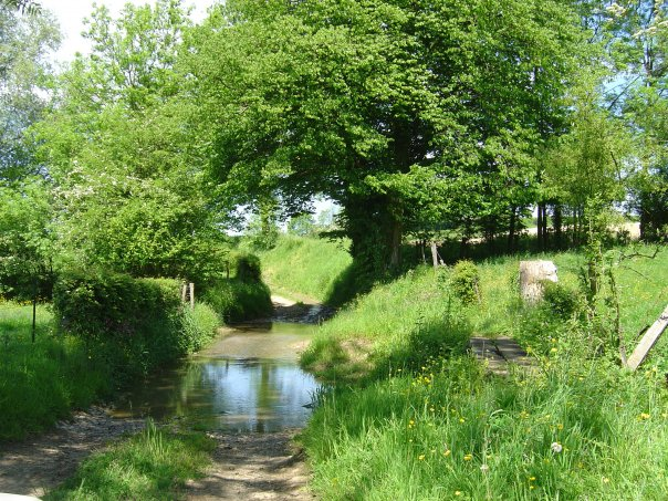 Path of the "Fontaine Liard".